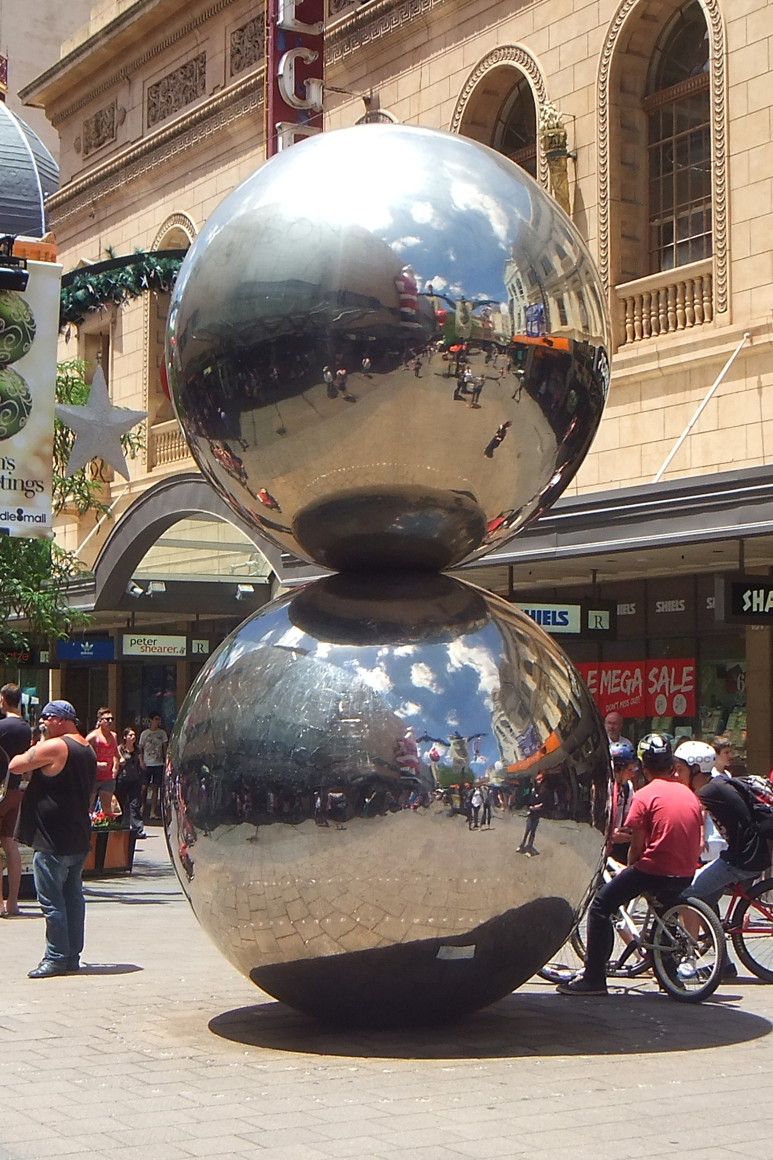 Affectionately referred to as the "Mall's Balls", On Further Reflection was commissioned by the Hindmarsh Building Society, who donated the work to the Adelaide City Council in 1977.